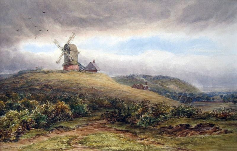 "Storm Approaching", 11" x17", watercolour